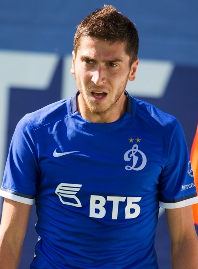 Aleksei Ionov